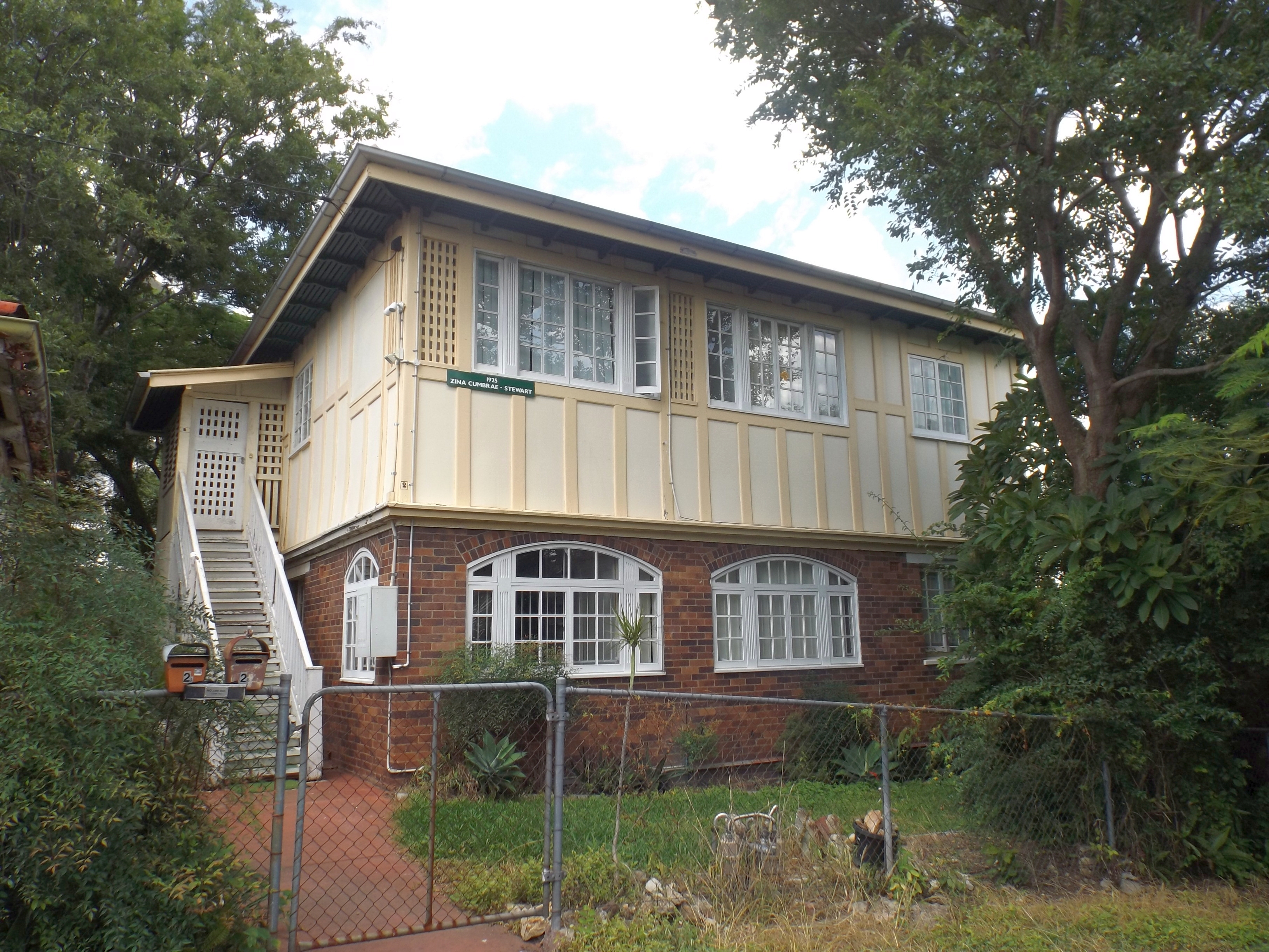 Photo of Scott Street Flats from Scott Street at Kangaroo Point, Brisbane, Queensland, Australia.